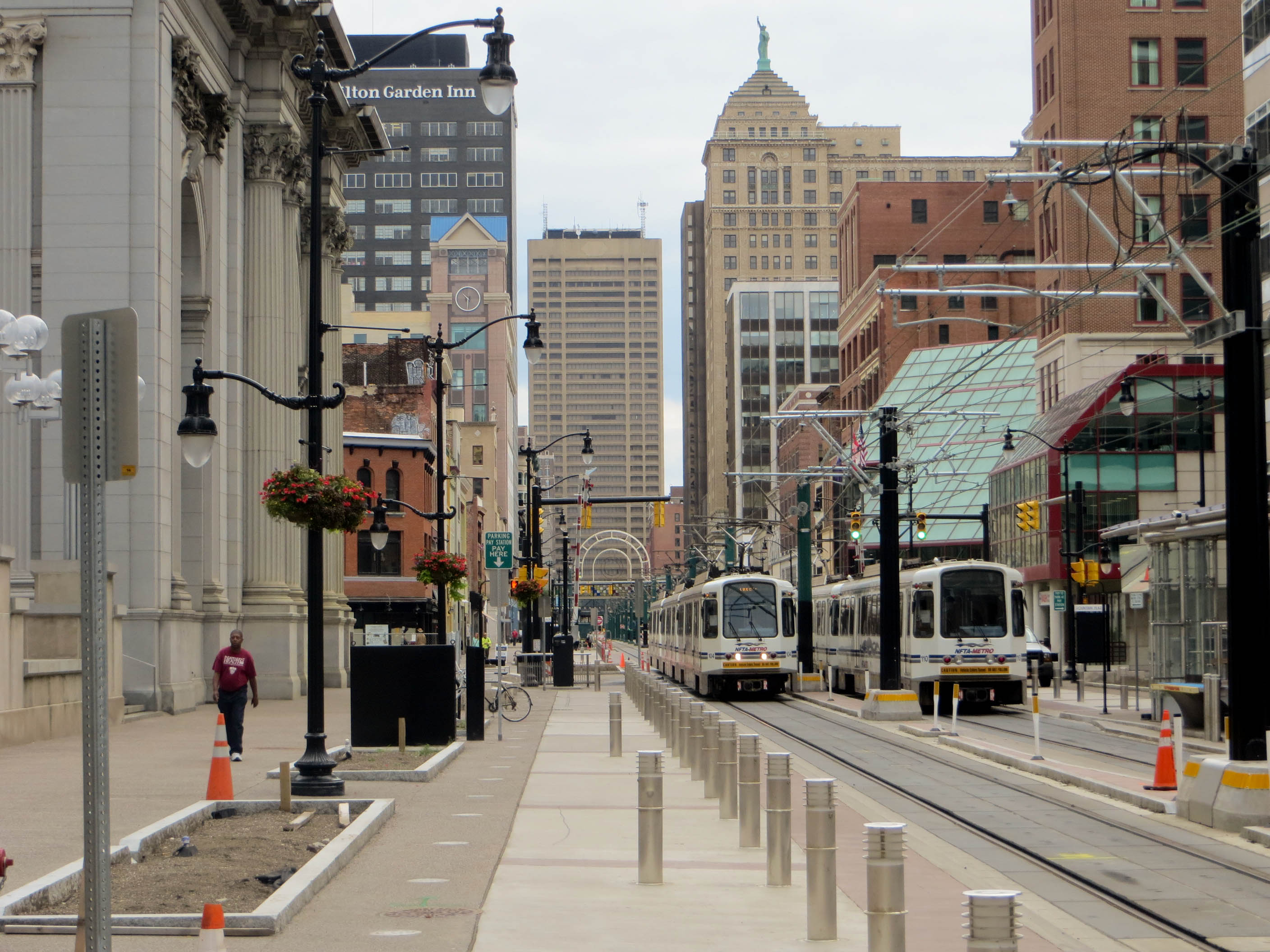 20150827 61 NFTA Light Rail @ Fountain Plaza